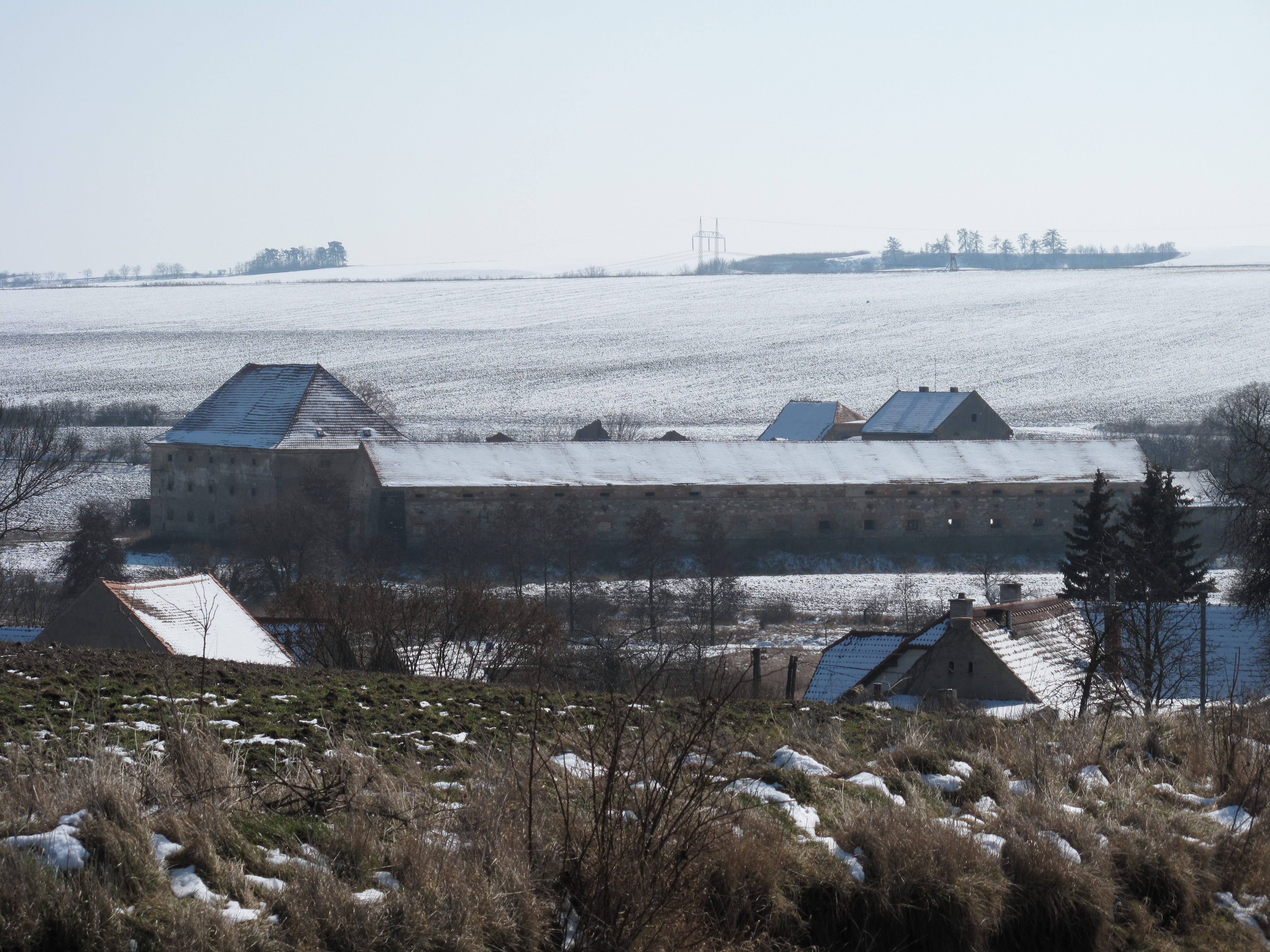 Farm in Stradonice village, Kladno District, Czech Republic.